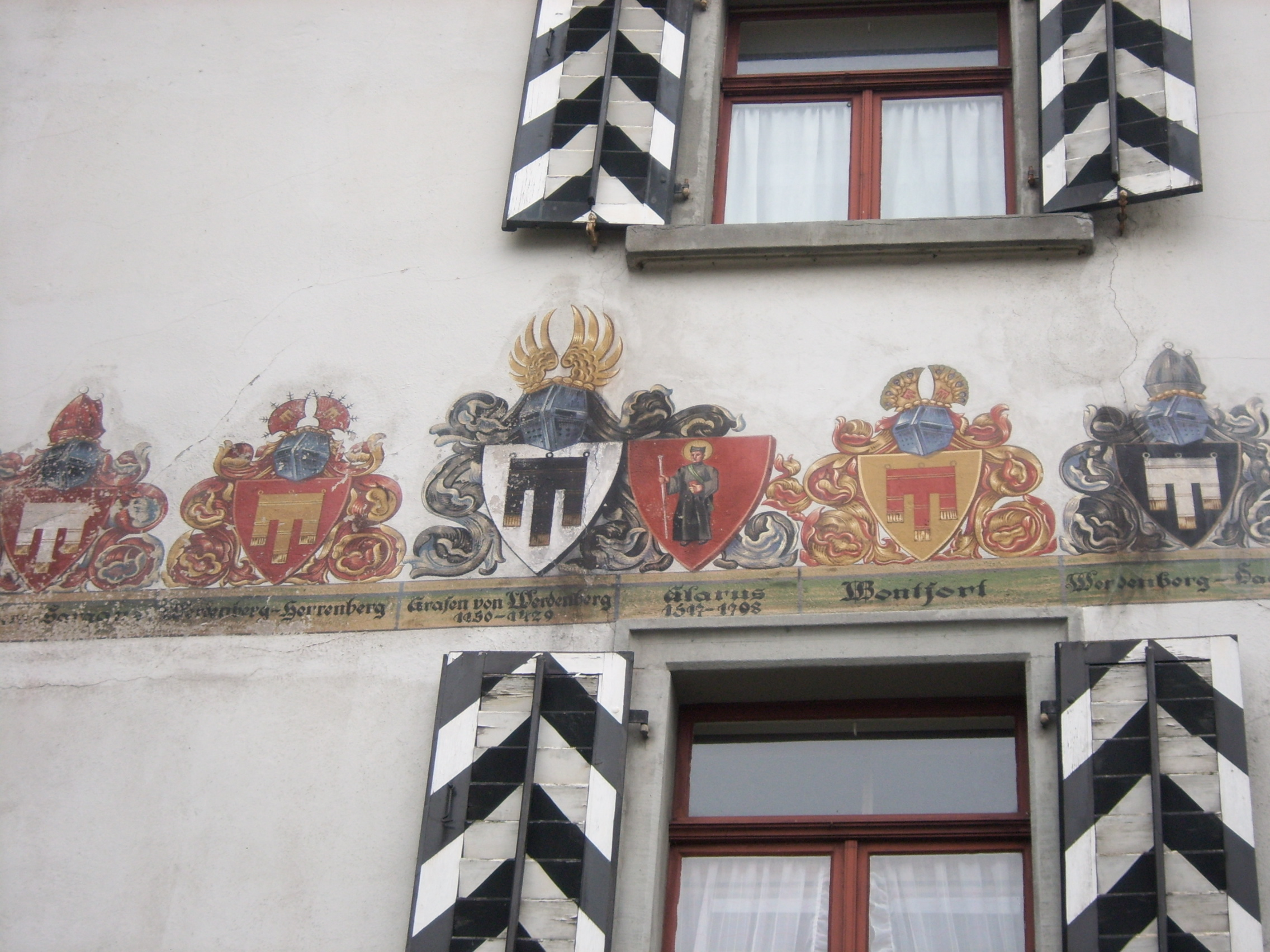 Coat of arms of some branch lines of the Counts of Montfort on a house in Werdenberg (St. Gallen/Switzerland).